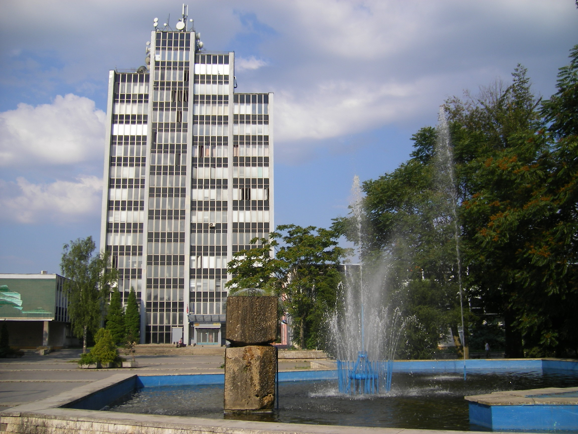 Michalovce, administratívna budova ( administration building)